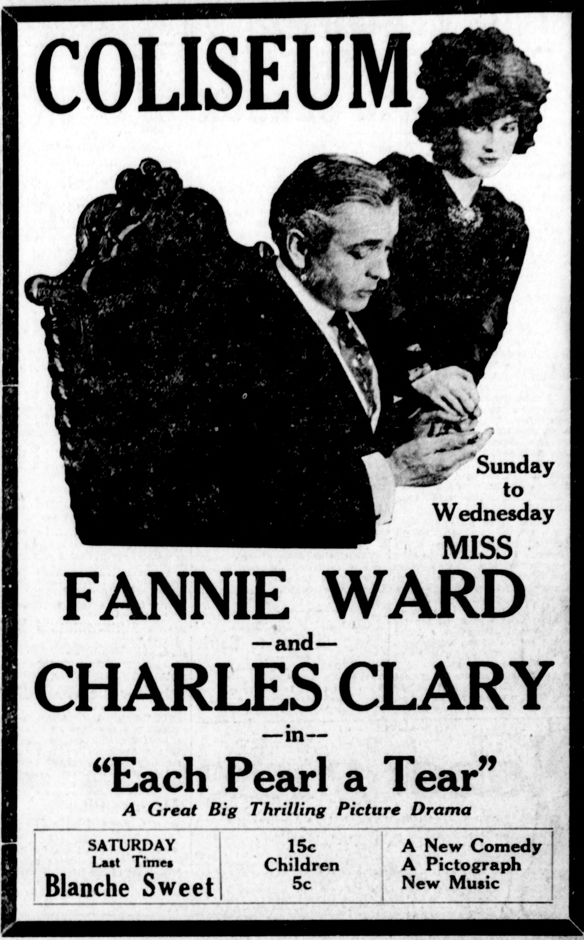 Each Pearl a Tear is a 1916 American drama silent film directed by George Melford and written by Beatrice DeMille and Leighton Osmun. This is a newspaper advert.